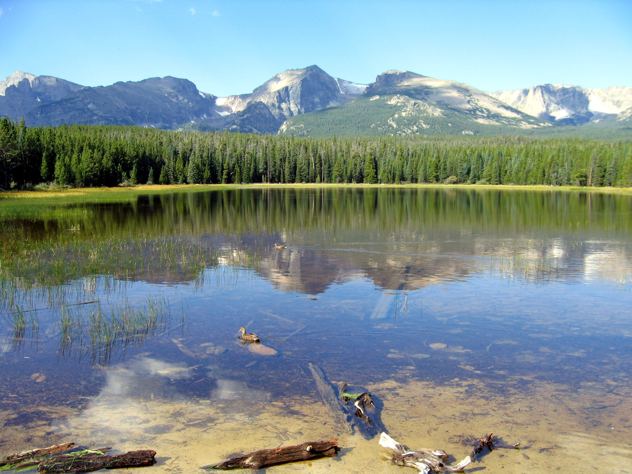 Reflection of mountains in Bierstadt Lake. The peaks are (starting second from the left and proceeding right): Otis Peak, Hallett Peak, Flattop Mountain, and Ptarmigan Point. Also, two ducks.